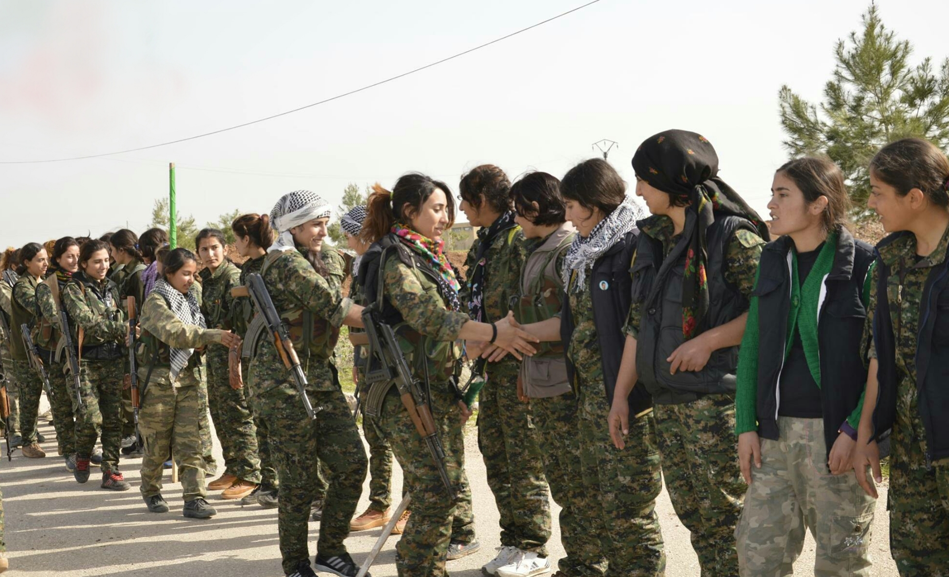 YPJ fighters shake hands with one another